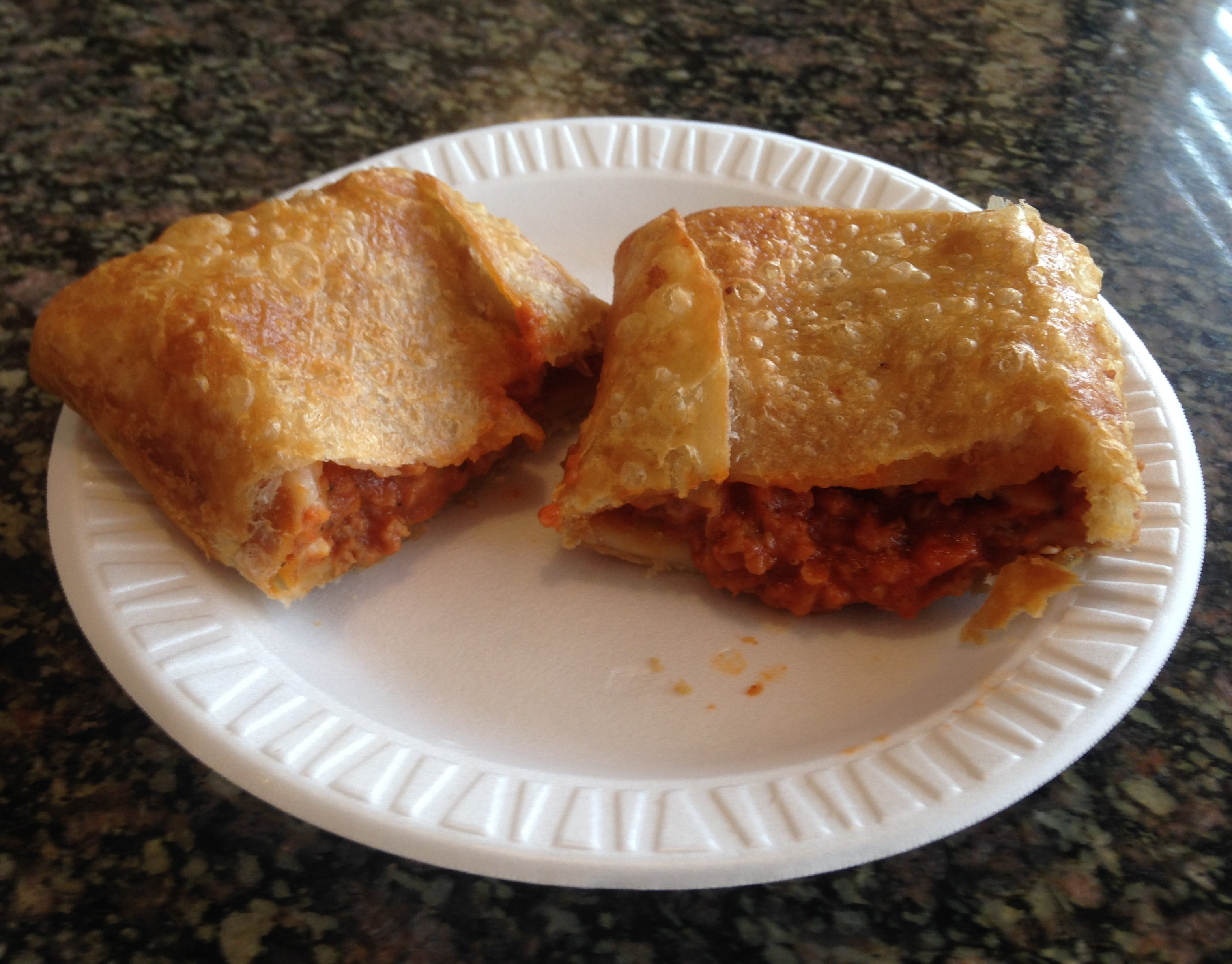 A pizza puff, at Booby's Charcoal Rib in Niles, Illinois.